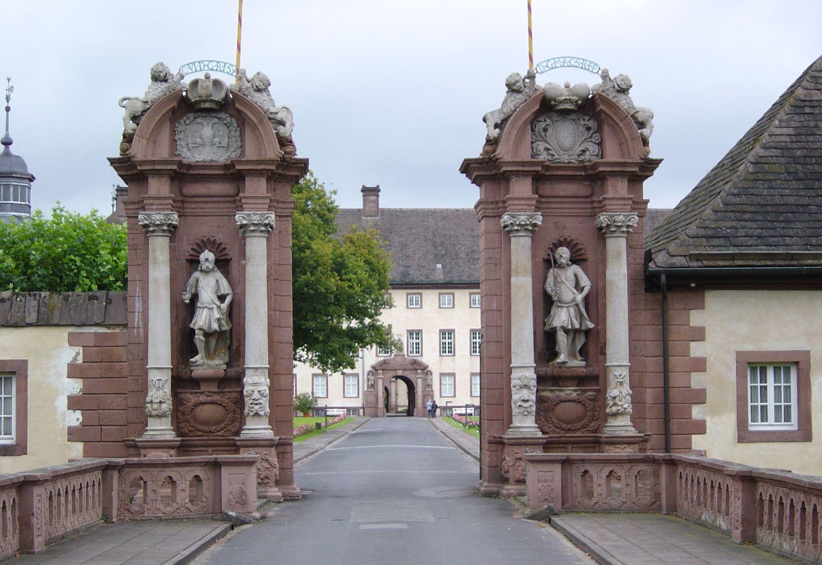 Entrance to Corvey Abbey near Höxter, Germany